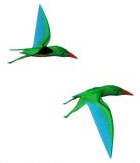 Nemicolopterus, pterosaur from Crretaceous early 2008, digital